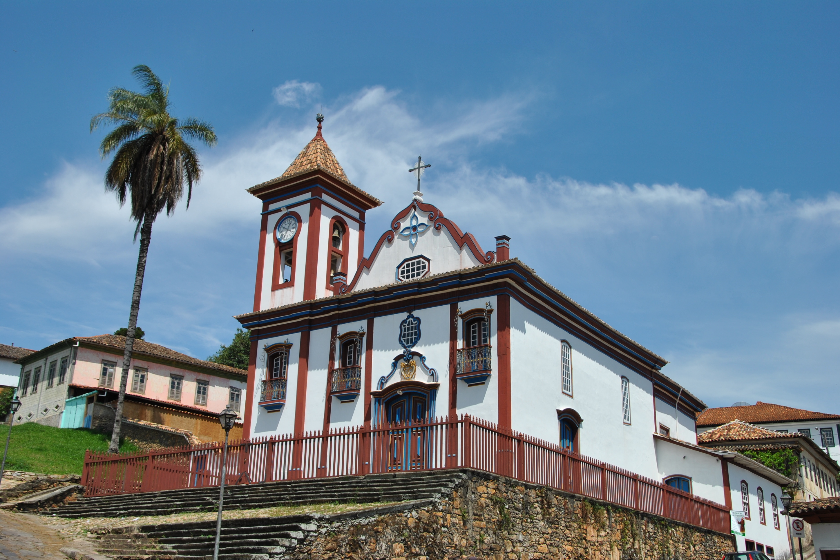 Saint Francis of Assis Church in Diamantina, Minas Gerais, Brazil.